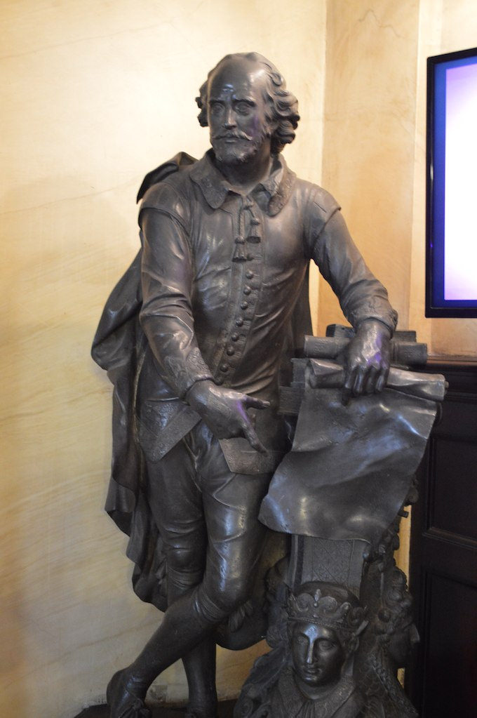 John Cheere's Shakespeare